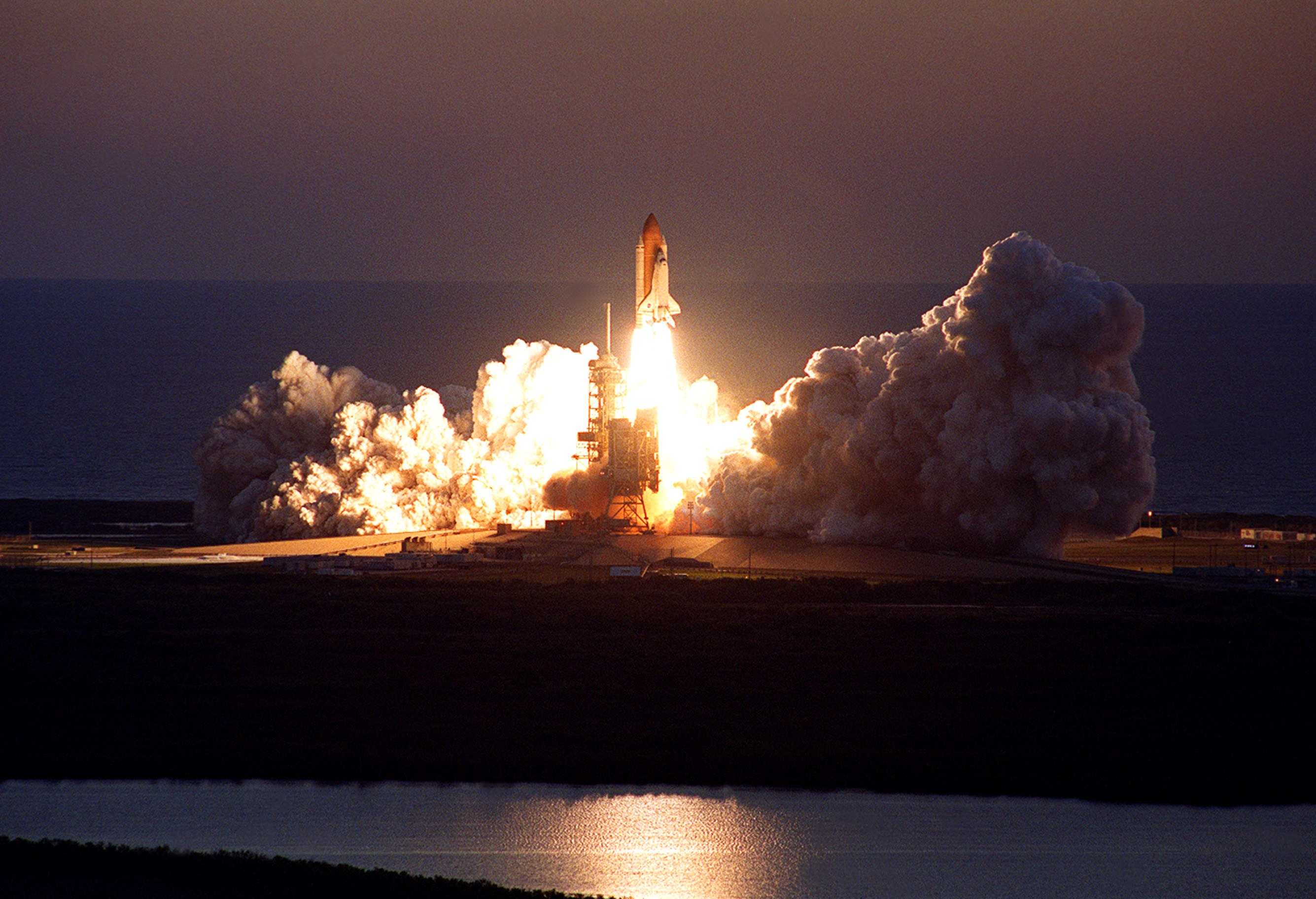 NASA image S102-S-008. Launch of STS-102